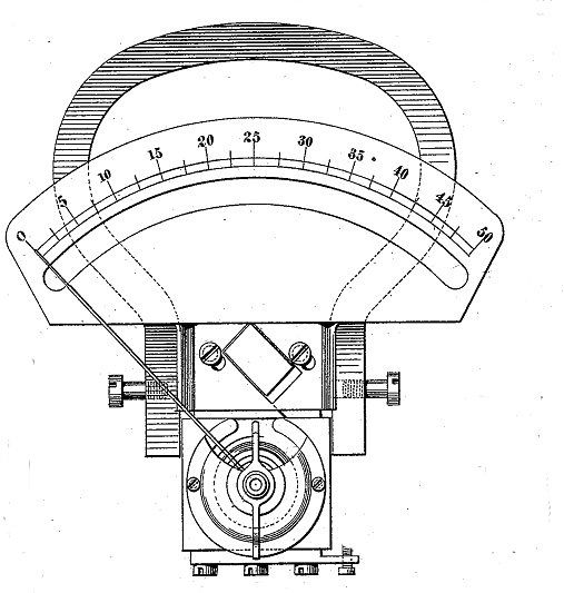 Drawing of measuring instrument from US patent №427,022 April 29 1890.